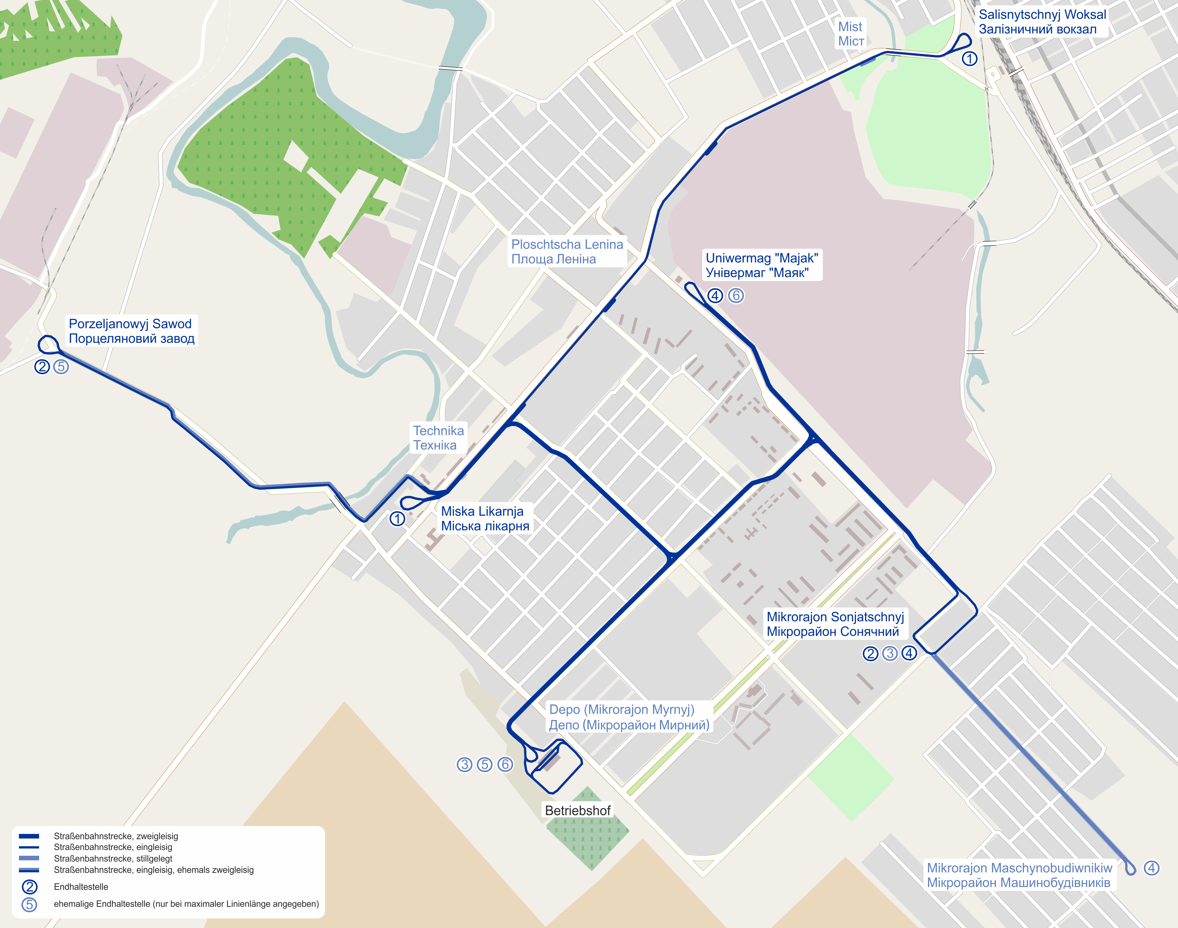 This map may be incomplete, and may contain errors. Don't rely solely on it for navigation.